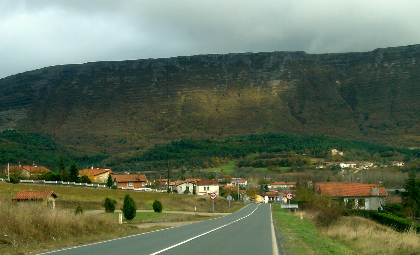 Zuhatzu Kuartango (Araba, Basque Country, Spain)